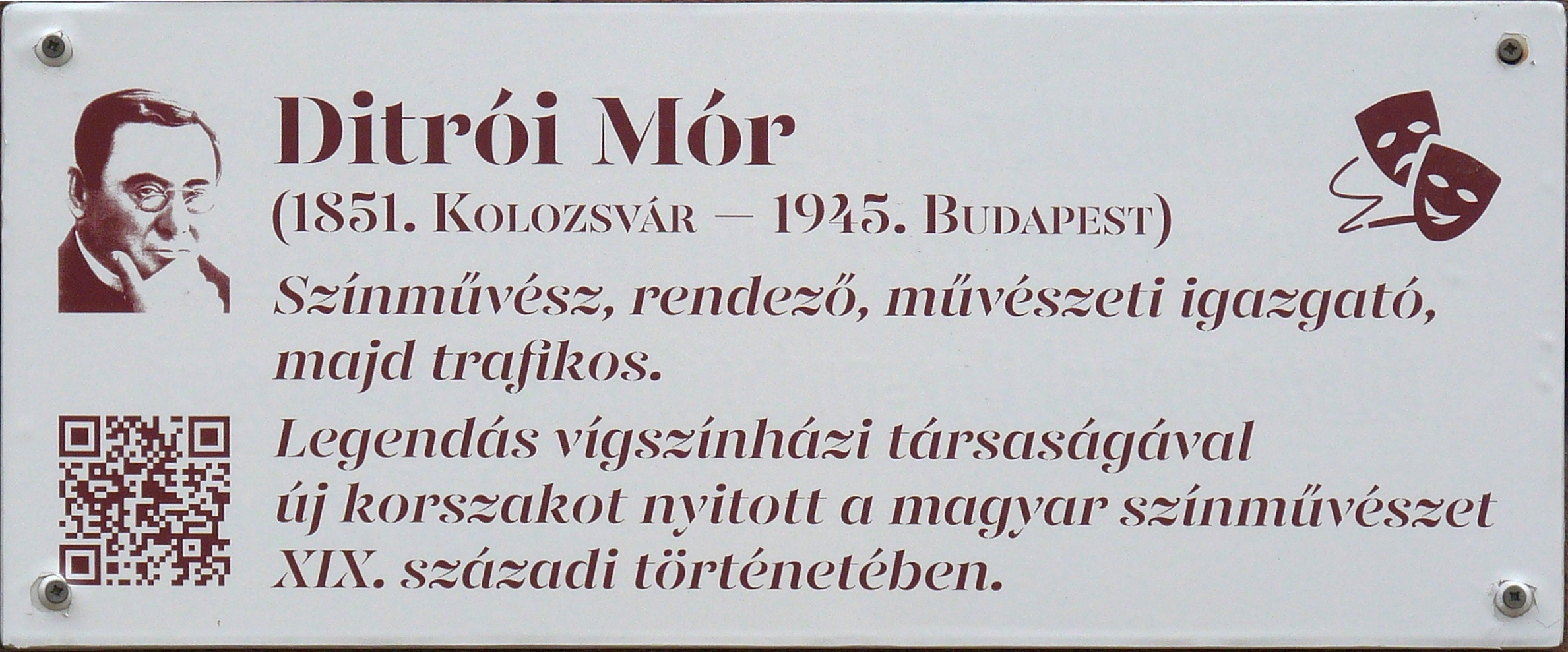 Commemorative plaque to Mr. Mór Ditrói (1851-1945) Hungarian actor, director and theater director in the street bearing his name. The QR code on the plate allows users to directly access to the Hungarian Wikipedia article which presents the artist. (Budapest, District XIII, Ditrói Mór Street Nr 1)